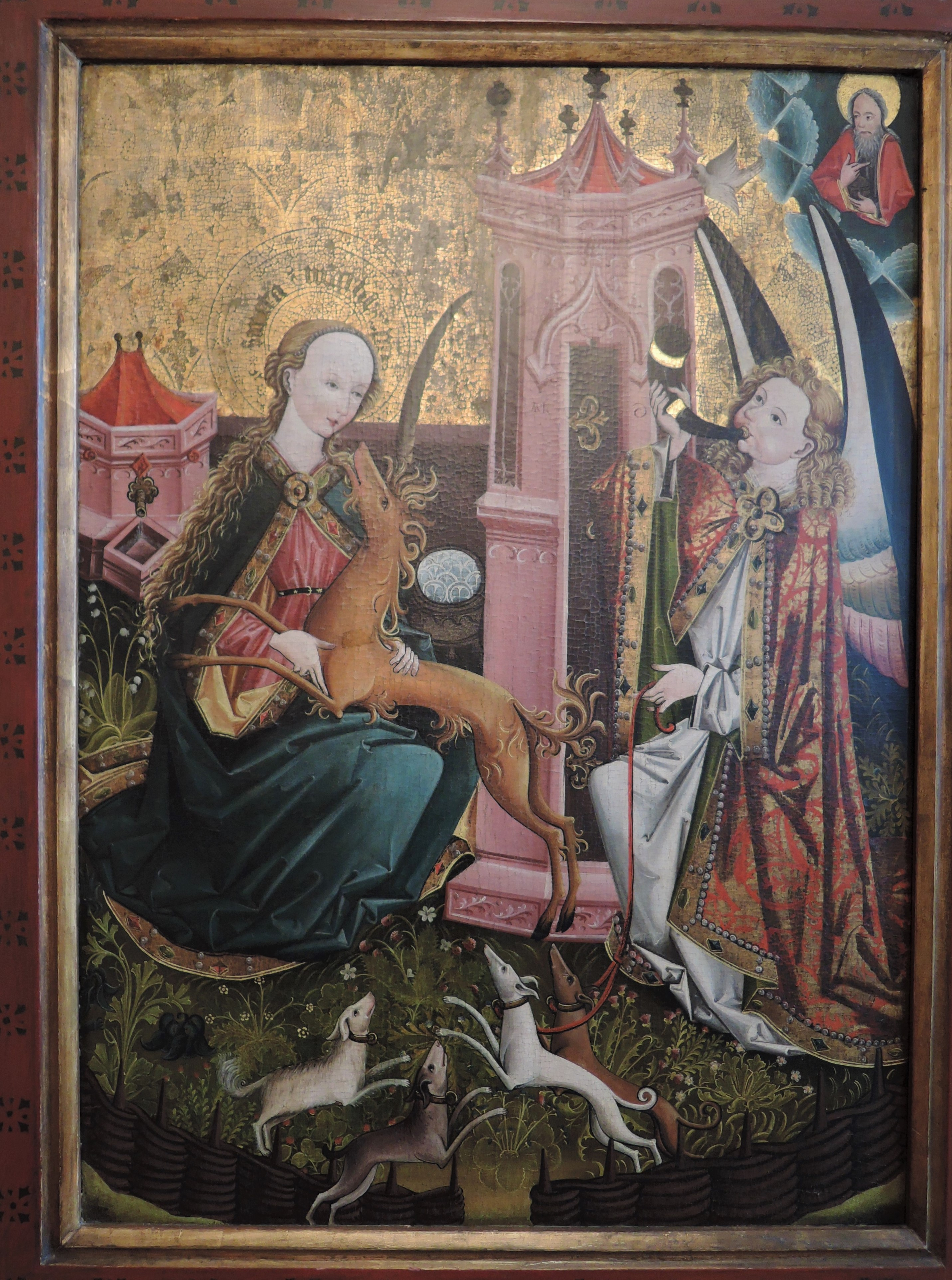 Annunciation from Jeníkov; Bohemian panel painting,north Bohemia around 1460, Gallery of the castle Duchcov